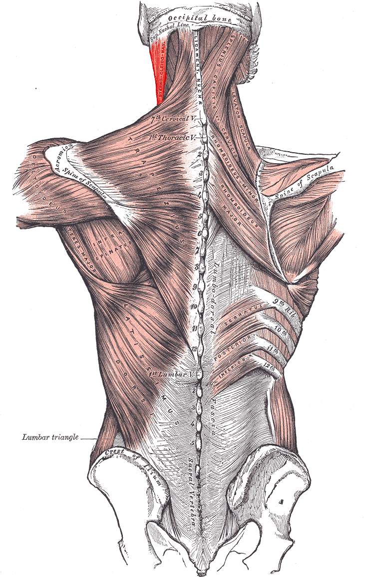 Muscles connecting the upper extremity to the vertebral column.